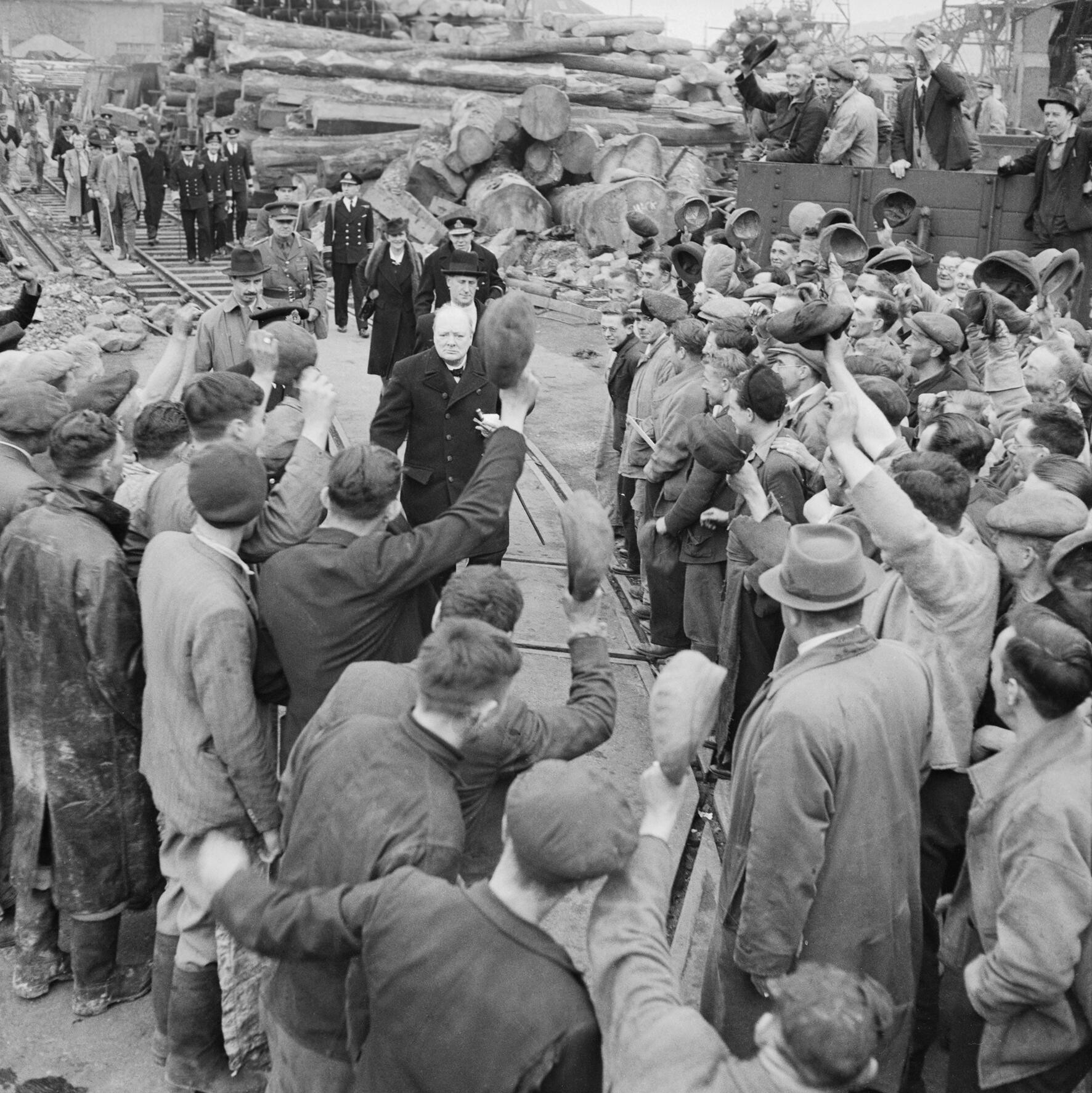 Winston Churchill is cheered by workers during a visit to bomb-damaged Plymouth, 2 May 1941. Winston Churchill is cheered by workers during a visit to bomb damaged Plymouth on 2 May 1941. The Prime Minister was accompanied by Lady Nancy Astor, Lord Mayoress of Plymouth, on this visit, who can be seen behind Churchill.